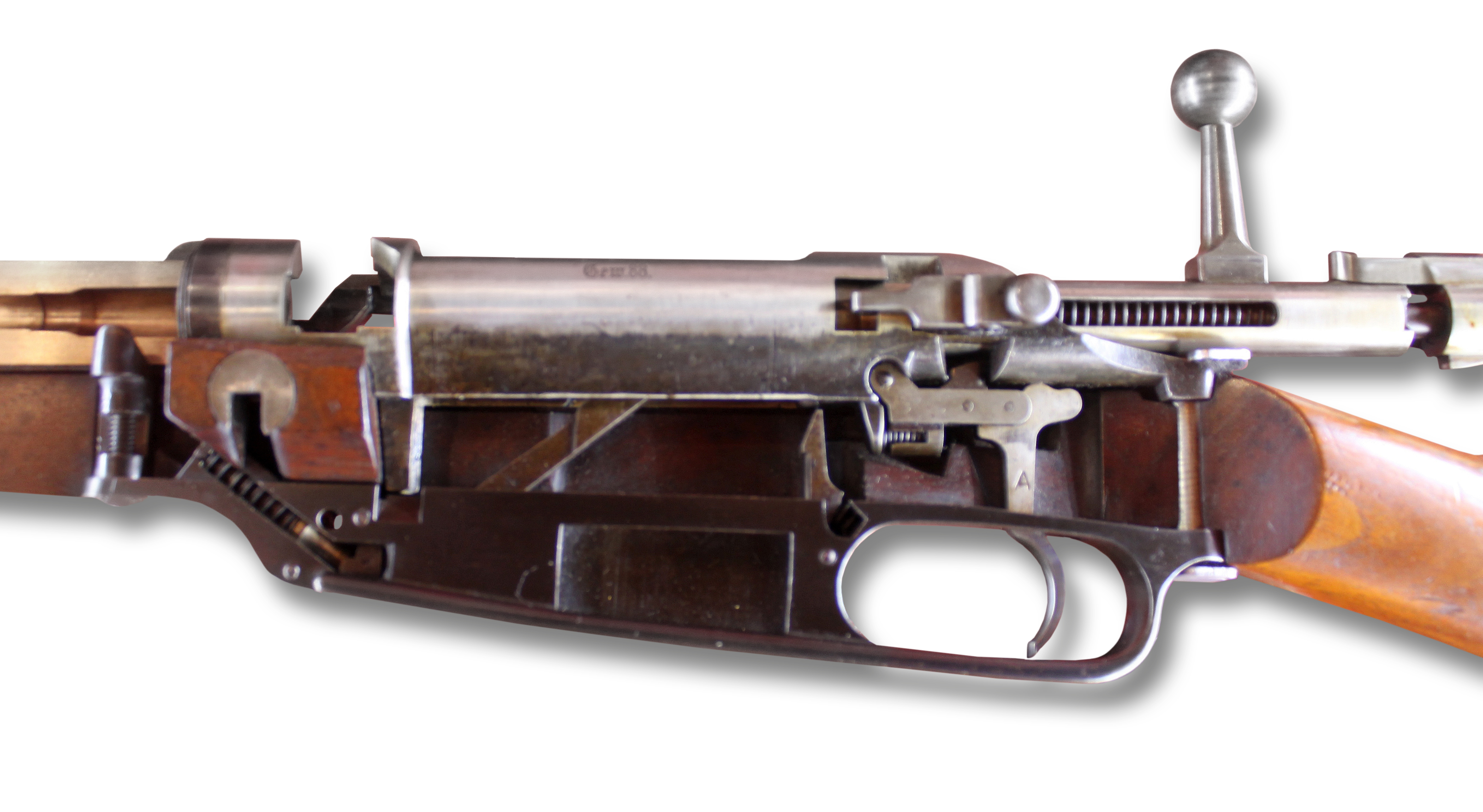 Cutaway model Gewehr 88 in the Waffenmuseum Suhl